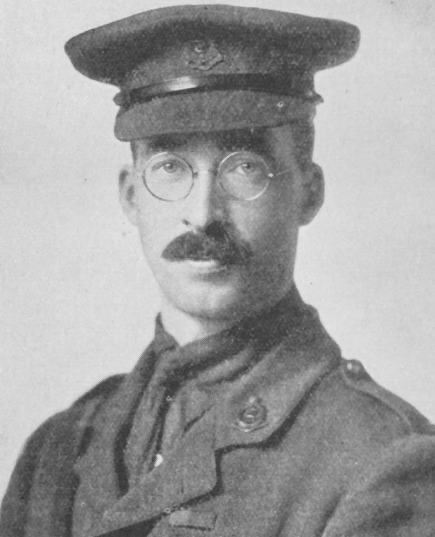 Portrait of Francis Alexander Caron Scrimger, VC, MD. Worked with 2nd Canadian Field Ambulance unit during 2nd Battle of Ypres, and has been credited with giving the order to urinate on handkerchiefs during chlorine gas attack on Canadian lines ('though it is questionable whether he originated the order). Won a VC on 25 April, 1915, during that battle.